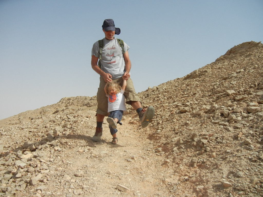 אב ובן יורדים את הר לבן